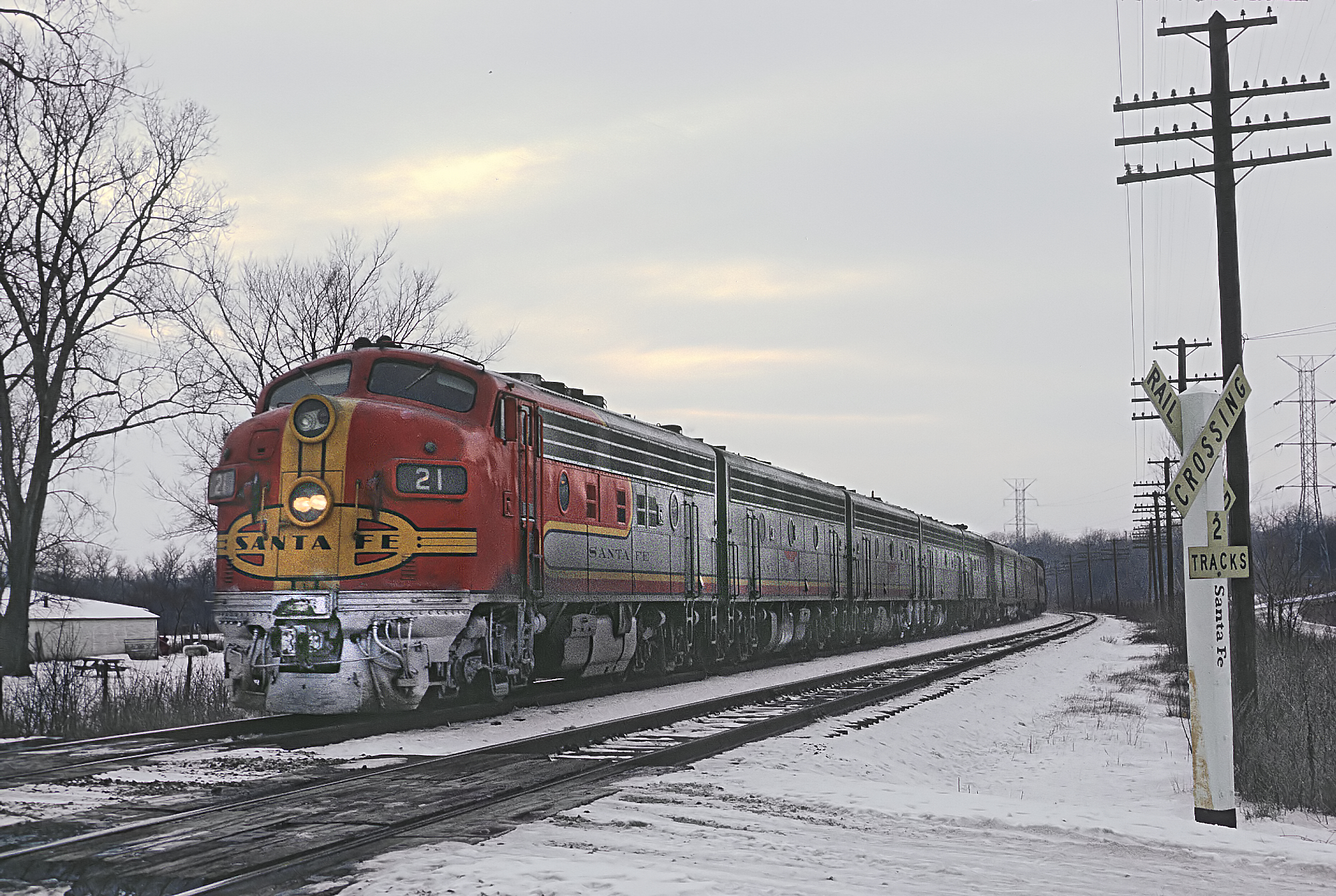 A Roger Puta photograph